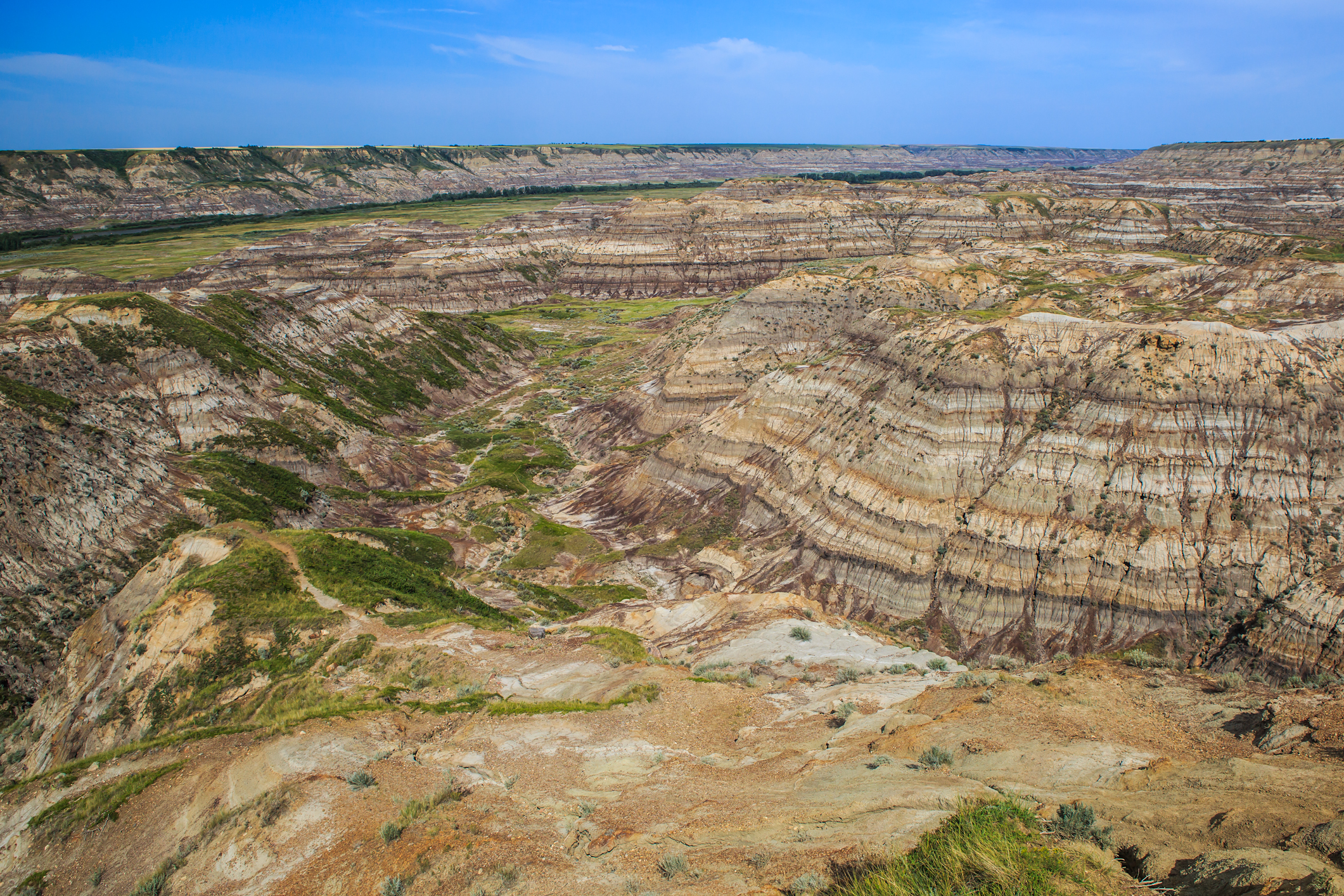 Drumheller environs